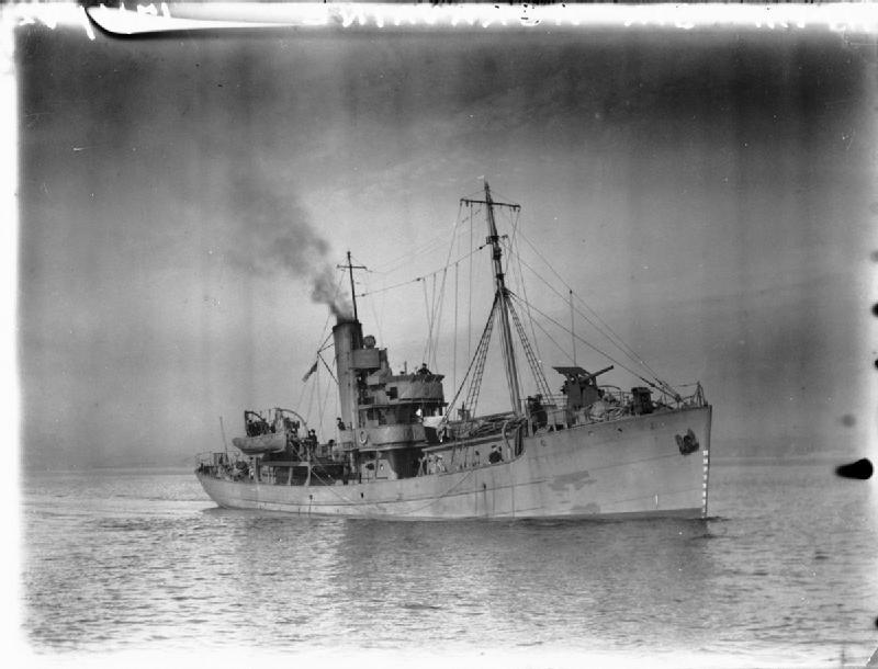 Hmt Sir Agravaine Underway.